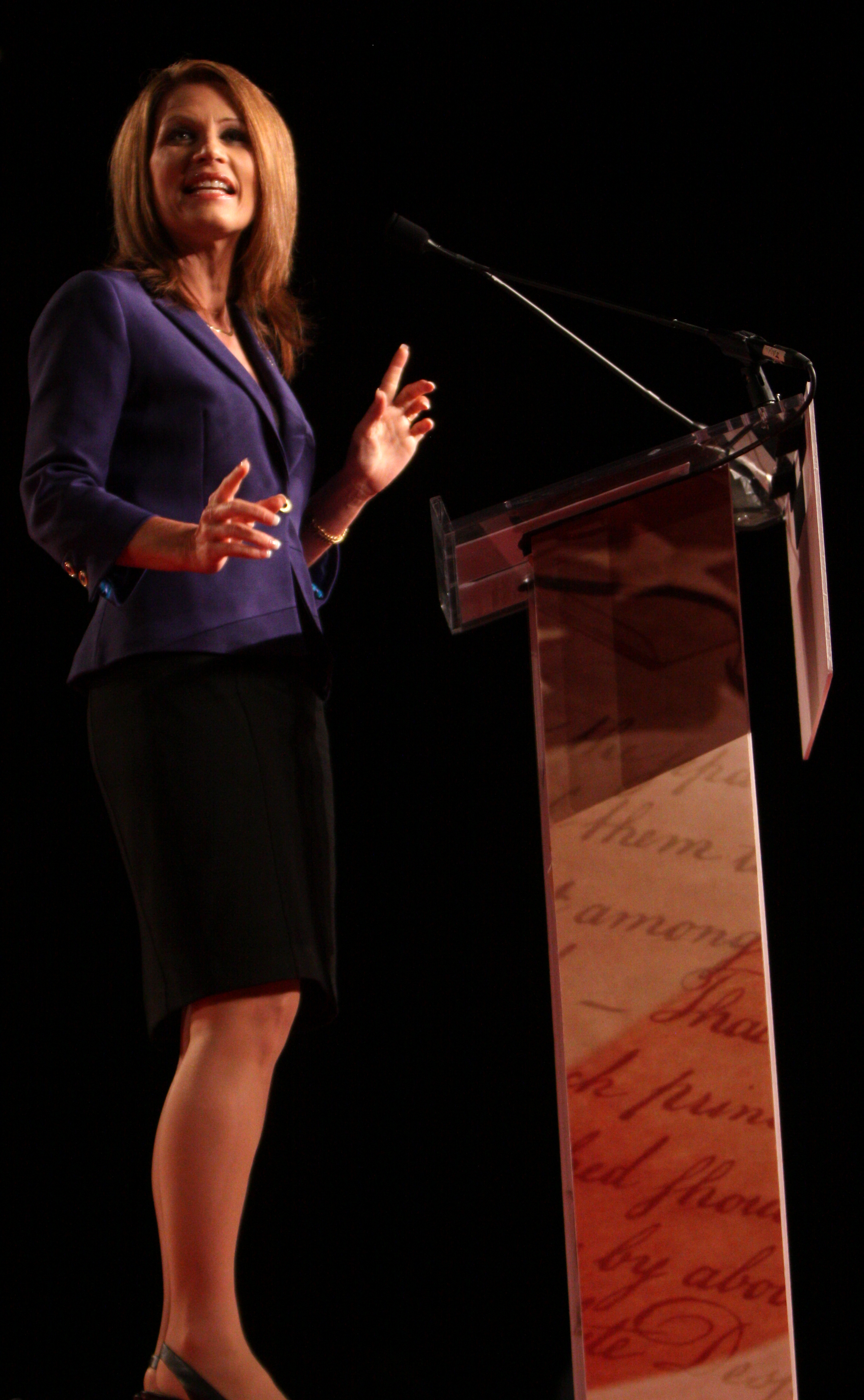 Presidential candidate and US Representative Michele Bachmann (R-Minn) addressing CPAC FL in Orlando, Florida